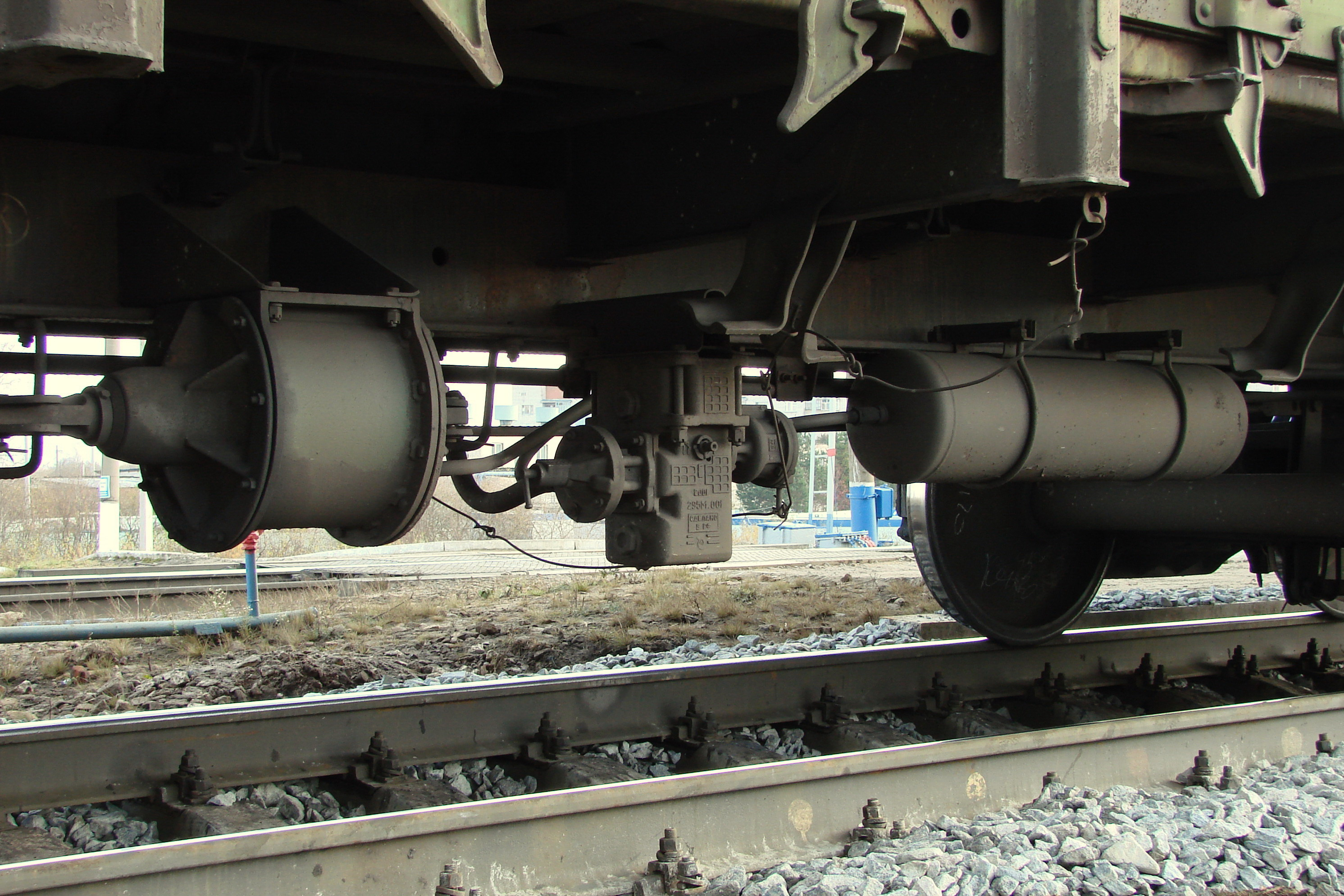 Elements of a Railway air brake gondola (brake cylinder, air distributor, a spare tank)